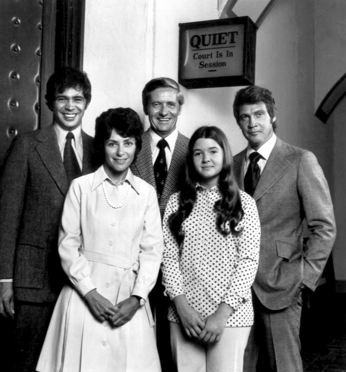 Cast photo for the television program Owen Marshall: Counselor at Law. From left, back-Reni Santori (Danny Paterno), Arthur Hill (Owen Marshall), Lee Majors (Jess Brandon). Front, from left, Joan Darling (Frieda Krause), Christine Matchett (Melissa Marshall).